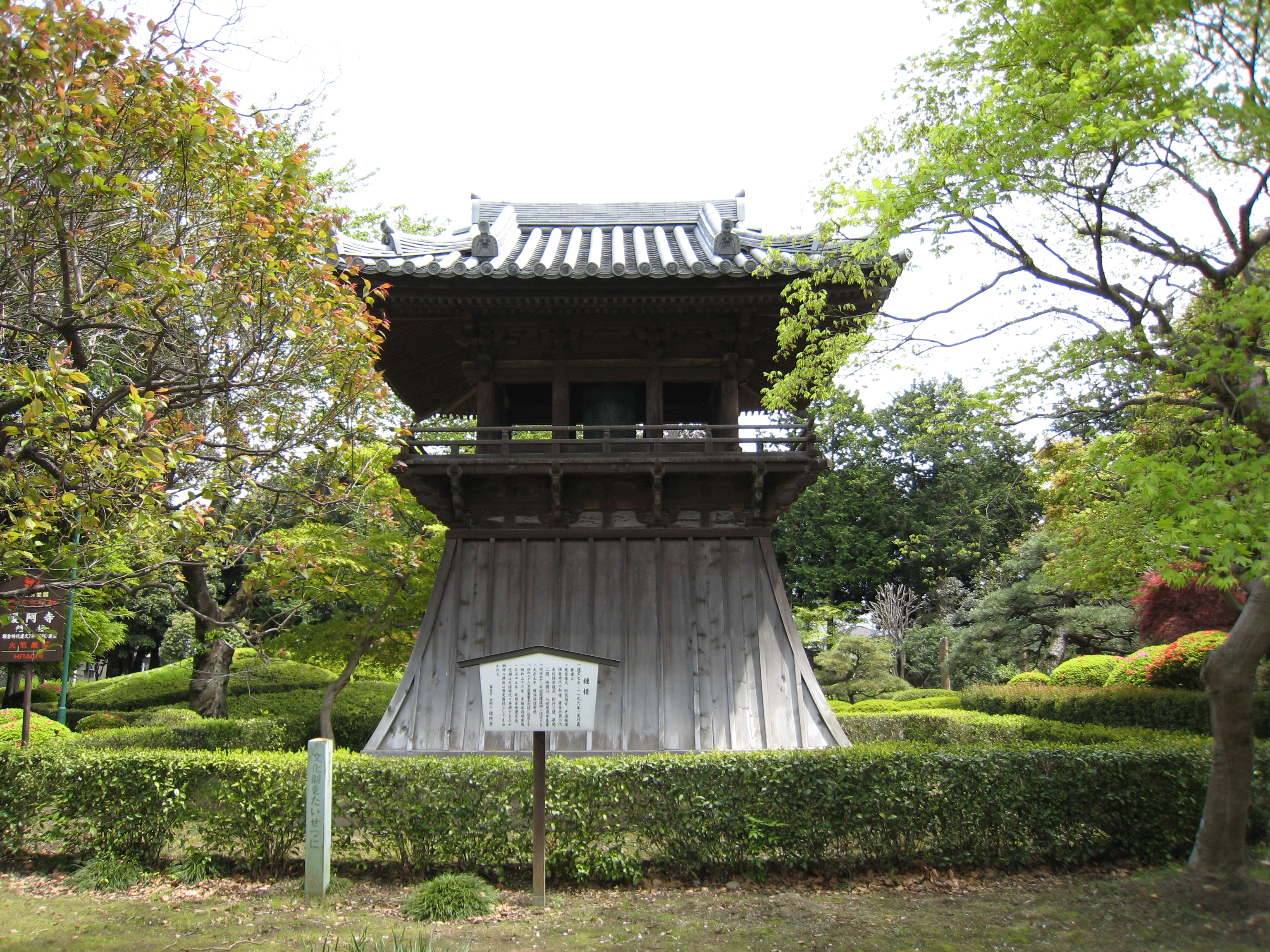 Banna-Ji(Temple) Shoro(Bell Tower) ,Ashikaga city,Tochigi,Japan